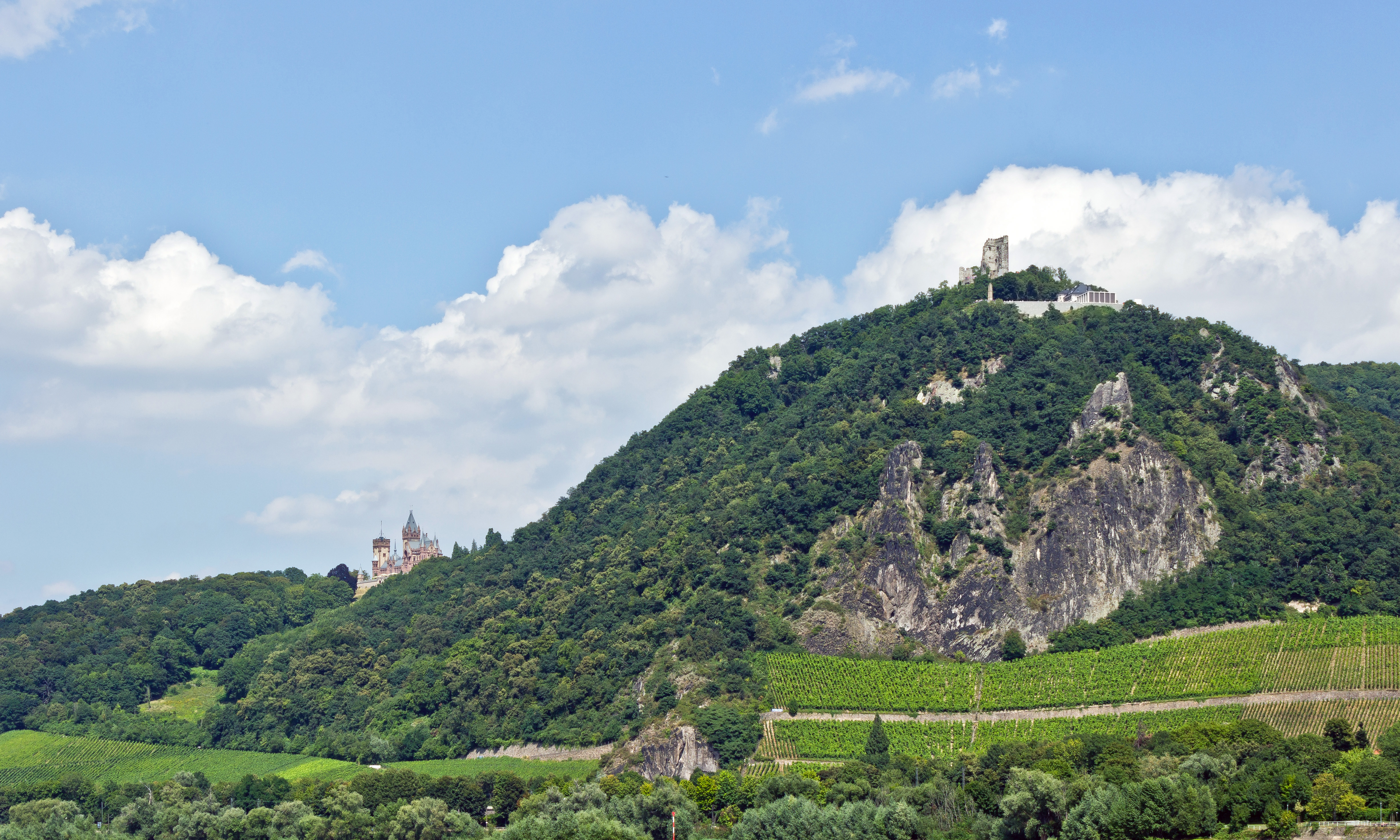 Drachenfels mountain with two castles on it: Schloss Drachenburg and Burg Drachenfels. View from Bonn Mehlem.